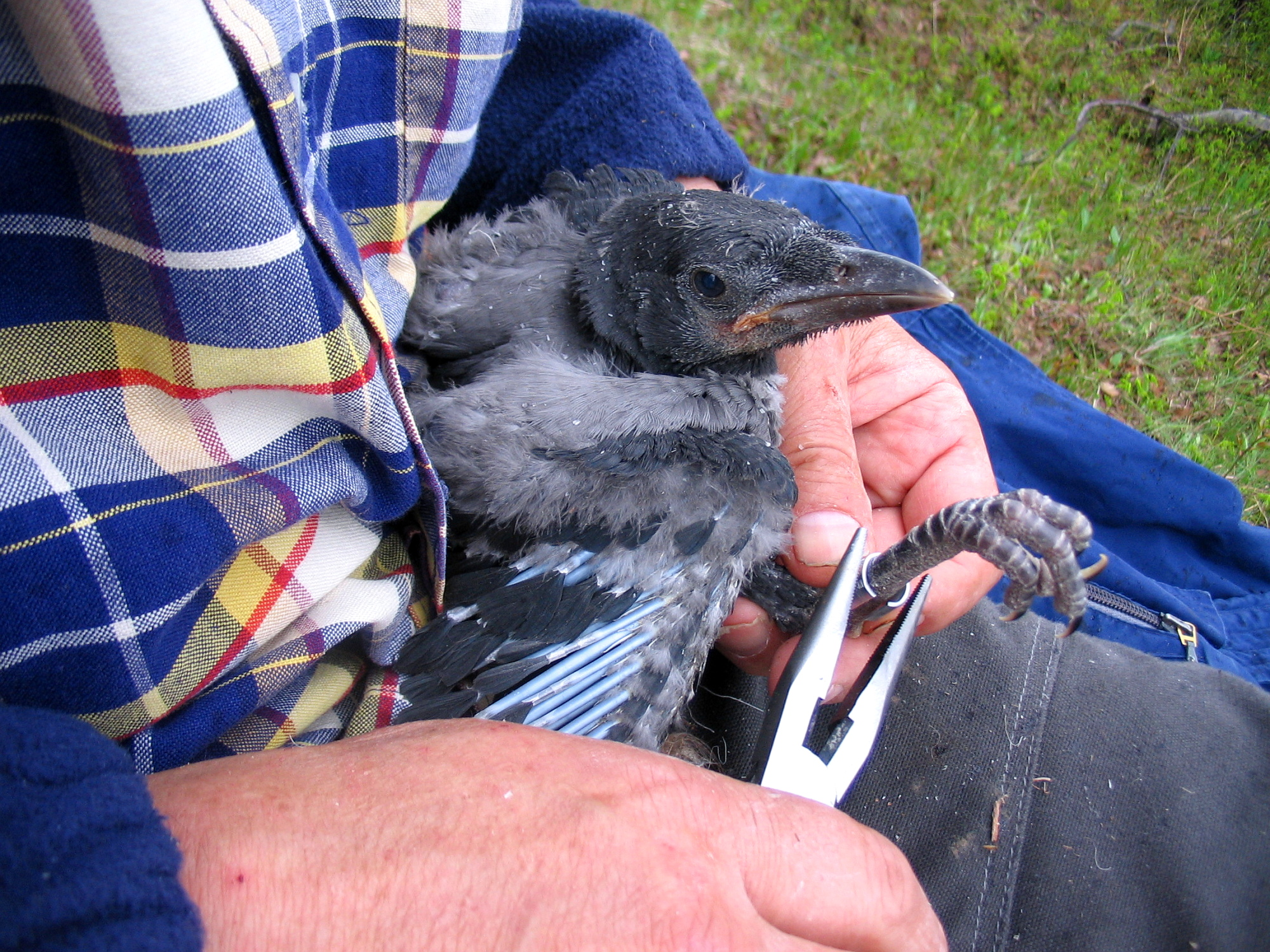 Ringing of a Hooded Crow (Corvus cornix) near Staloluokta, Padjelanta National Park, Sweden